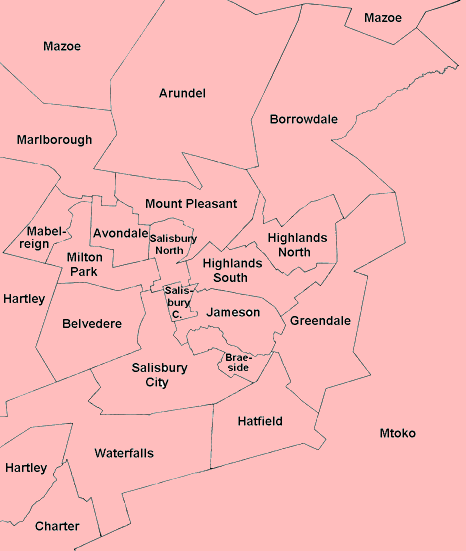 European roll constituencies in Salisbury, Rhodesia after the 1970 Delimitation; used in the 1970, 1974, and 1977 general elections.